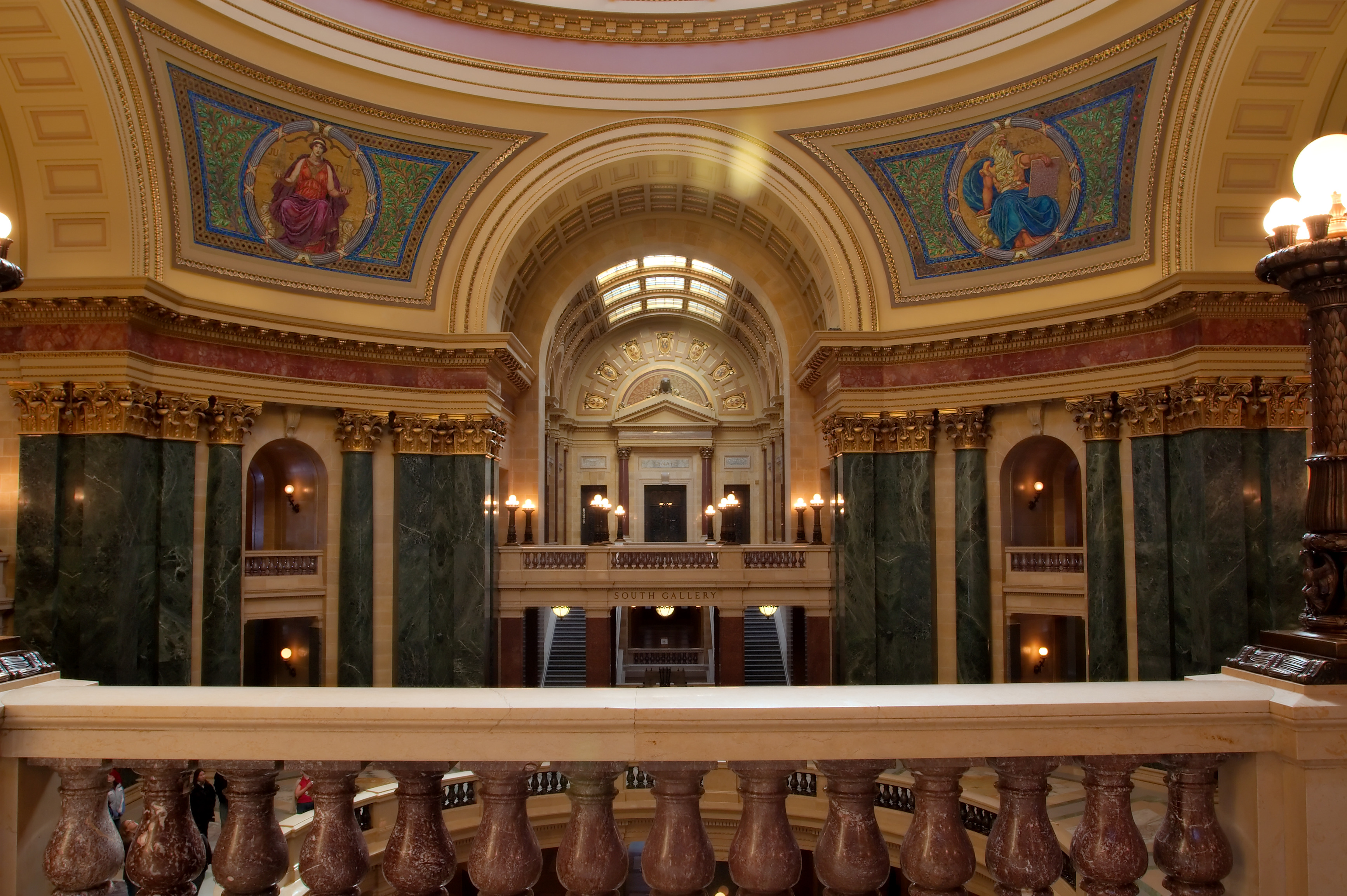 Inside the Wisconsin State Capitol, facing the south gallery